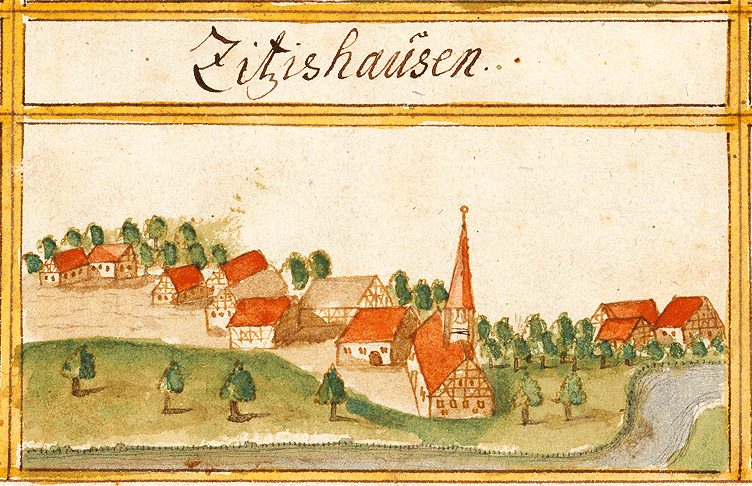 View of Zizishausen, Nürtingen, from the forest register books created by Andreas Kieser